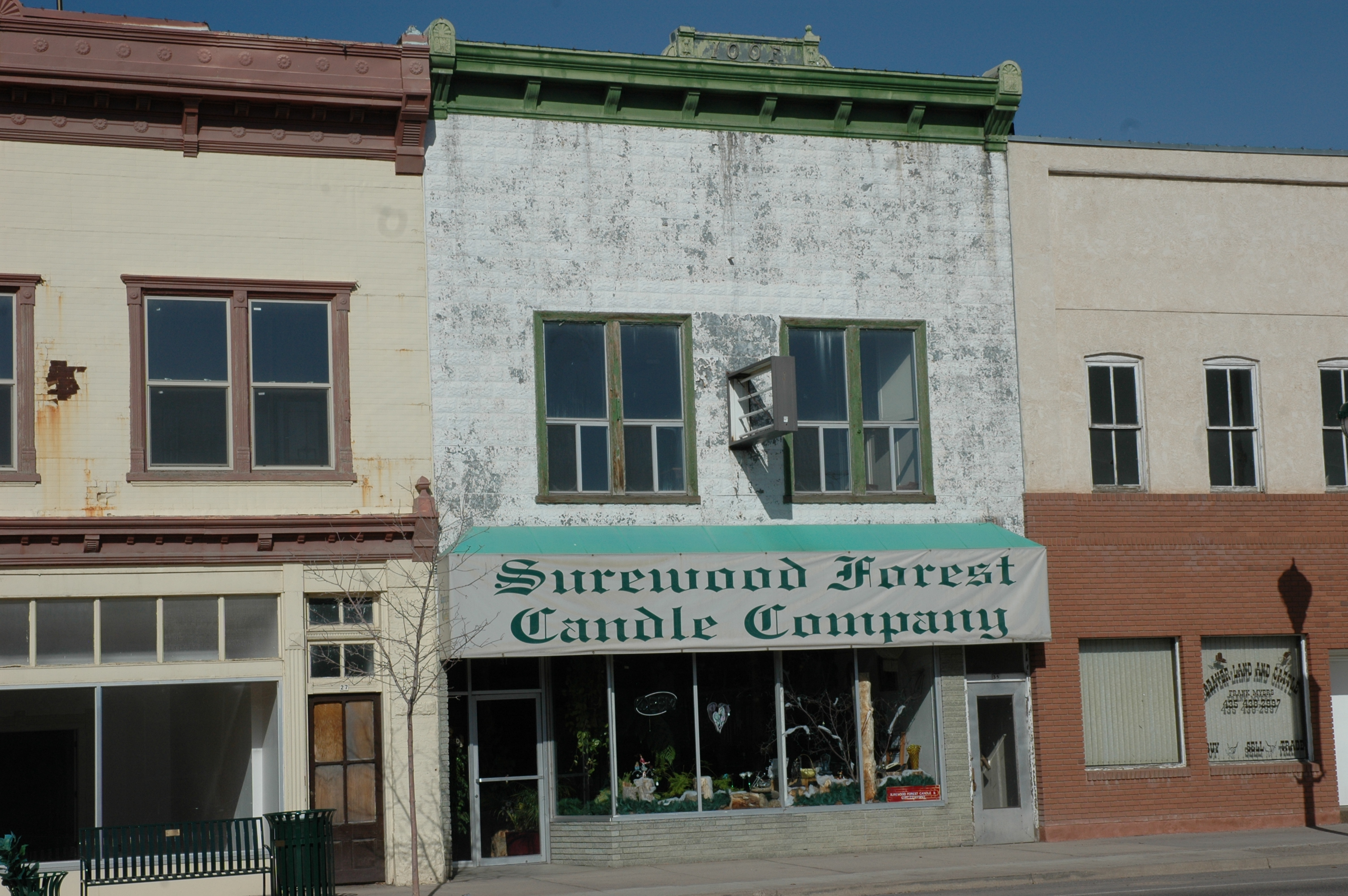 The Odd Fellows Hall, a historic building in Beaver, Utah, United States.